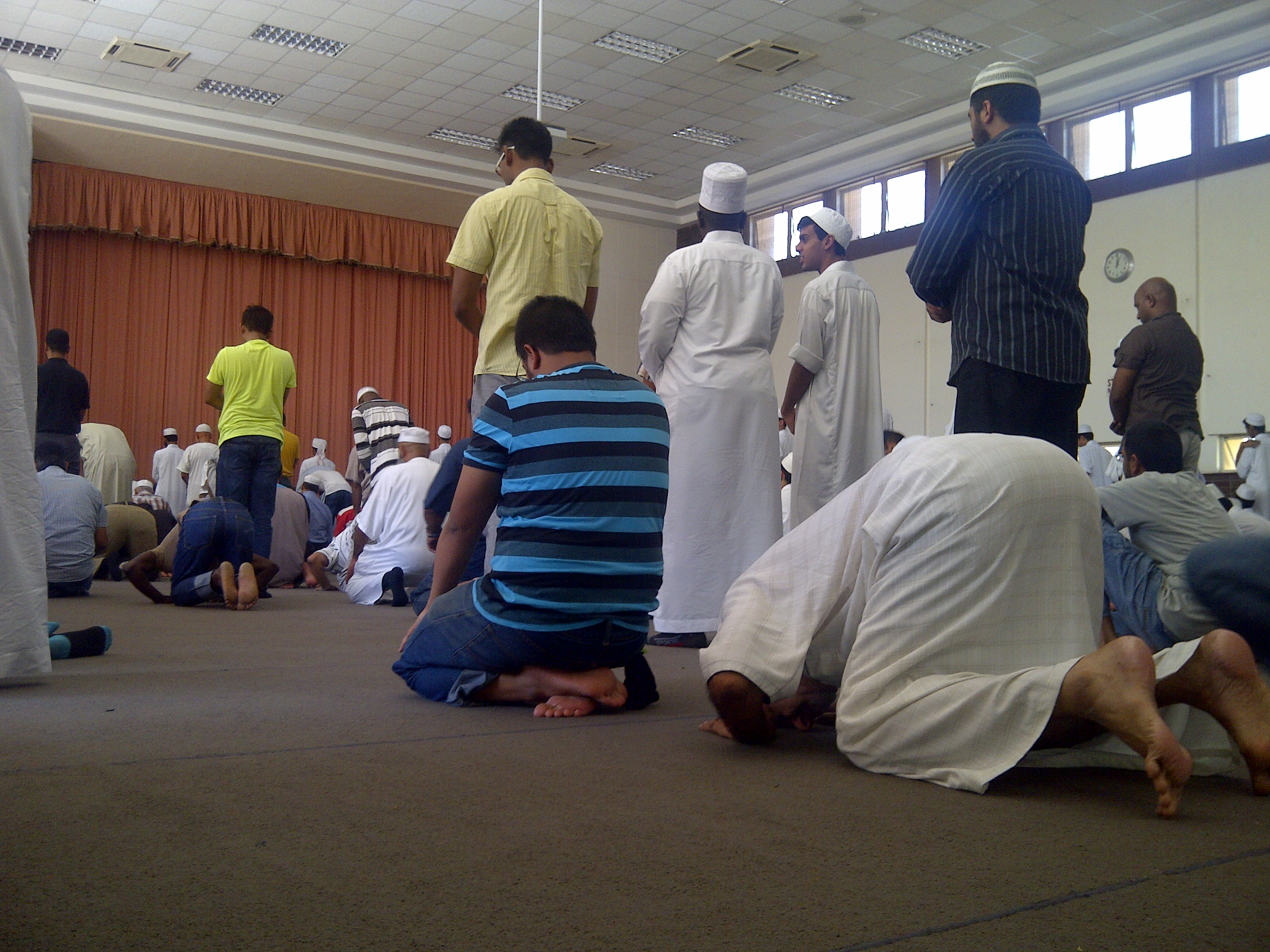 Sunnah Salat @ Orient Islamic School Hall in KZN Durban